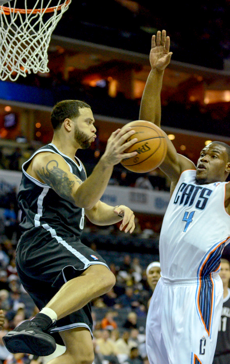 Brooklyn Nets' Deron Williams is guarded by Charlotte Bobcats' Jeff Adrien.